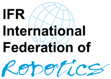 Logo of the International Federation of Robotics